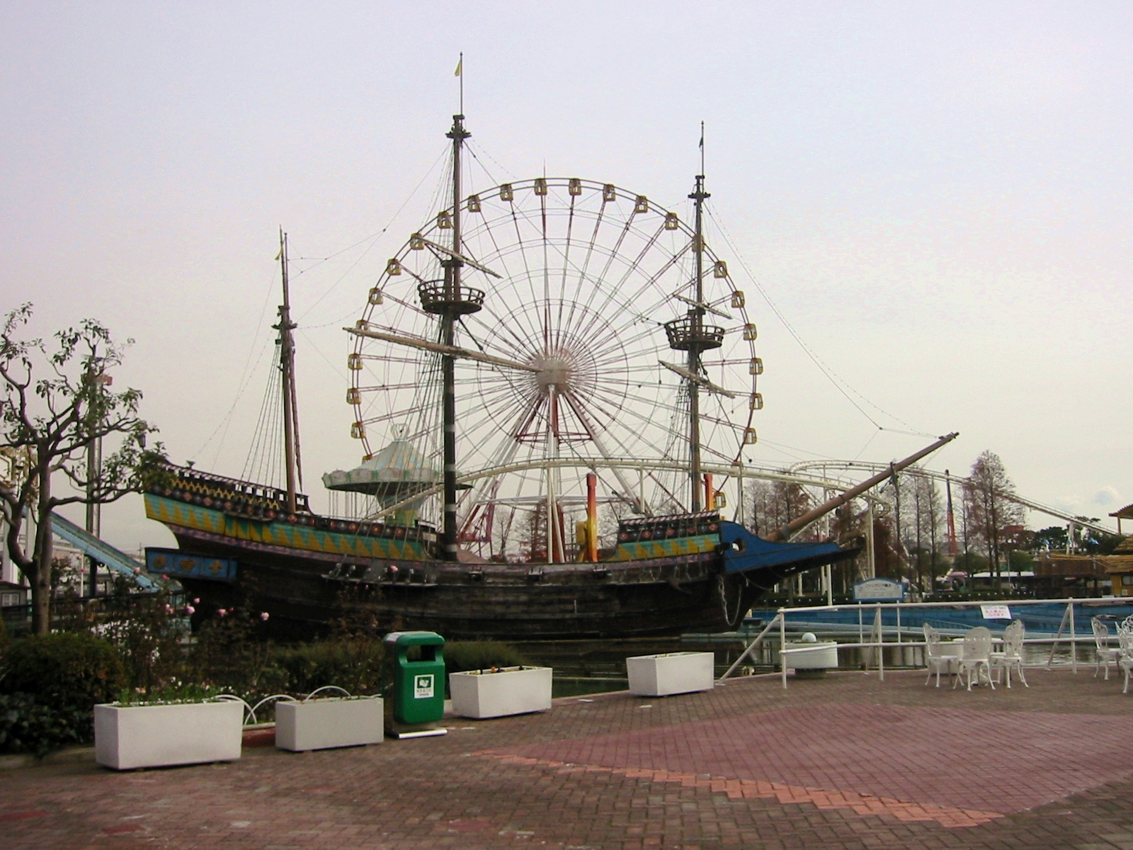 神戸ポートピアランド Kobe Portopia Land on Port Island, disassembled in August 2006